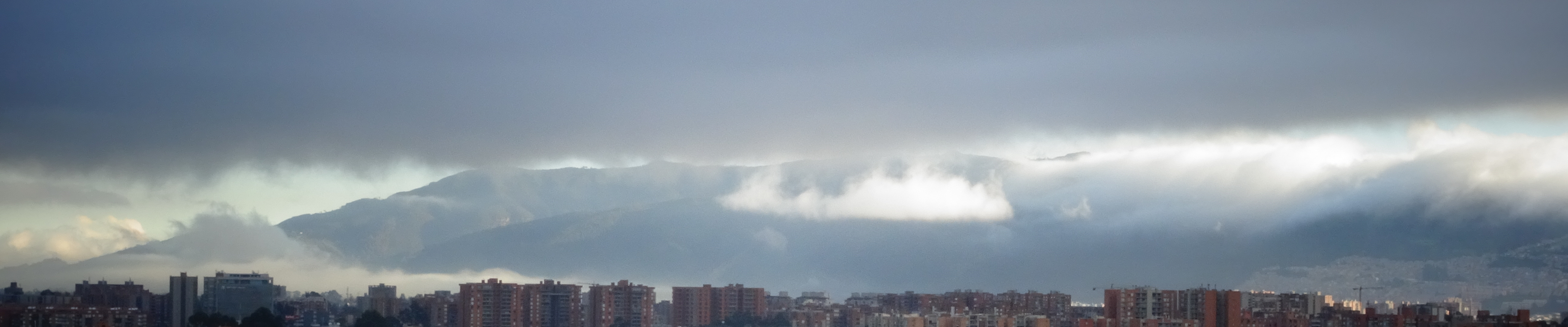 Panorama of clouds over the northern part of the Eastern Hills, Bogotá